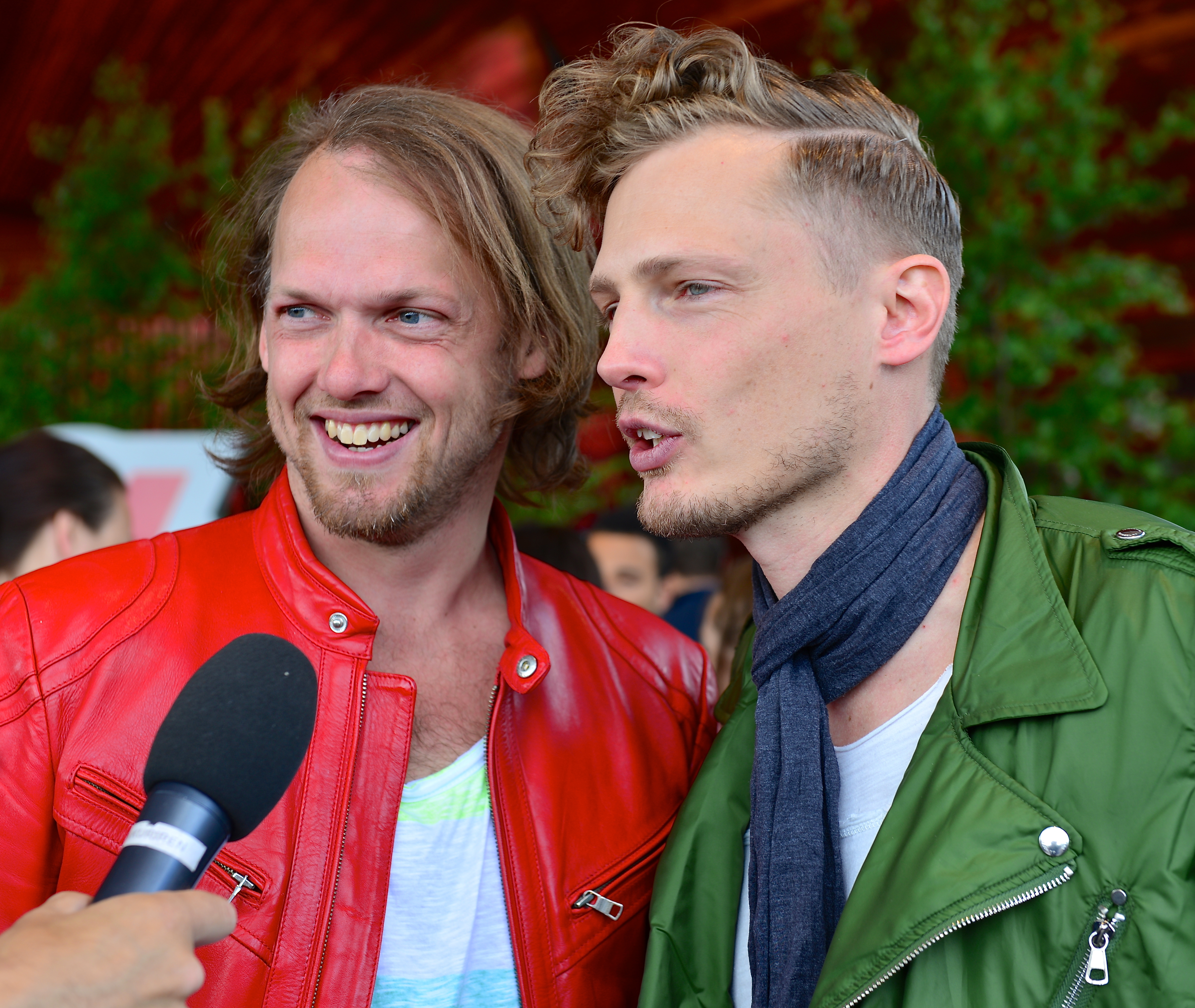 Brynolf & Ljung during the stage presentation to Allsång på Skansen in Stockholm June 11, 2013.